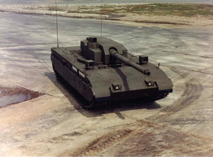 TACOM Tank Test Bench (TTB)